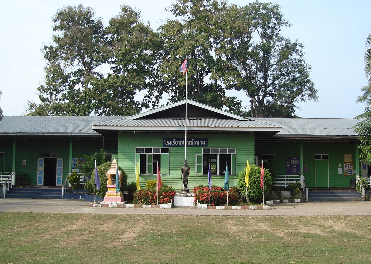 BBan Huahat School.Location: Ban Huahat School Ban Huahat, Khung Taphao subdistrict, Mueang Uttaradit, Uttaradit Province, Thailand.